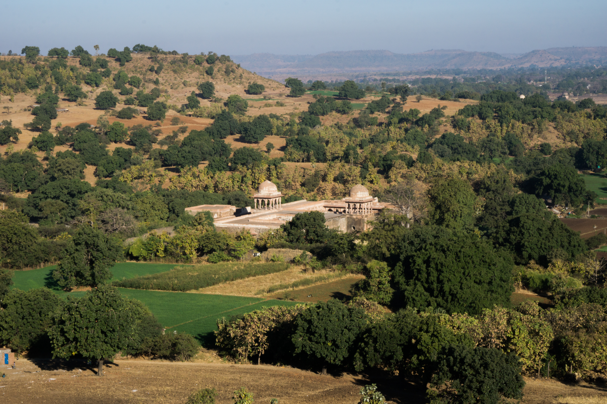 Baz Bahadur's palace in Mandu, Madhya Pradesh, as viewed from Rani Roopmati's pavilion.